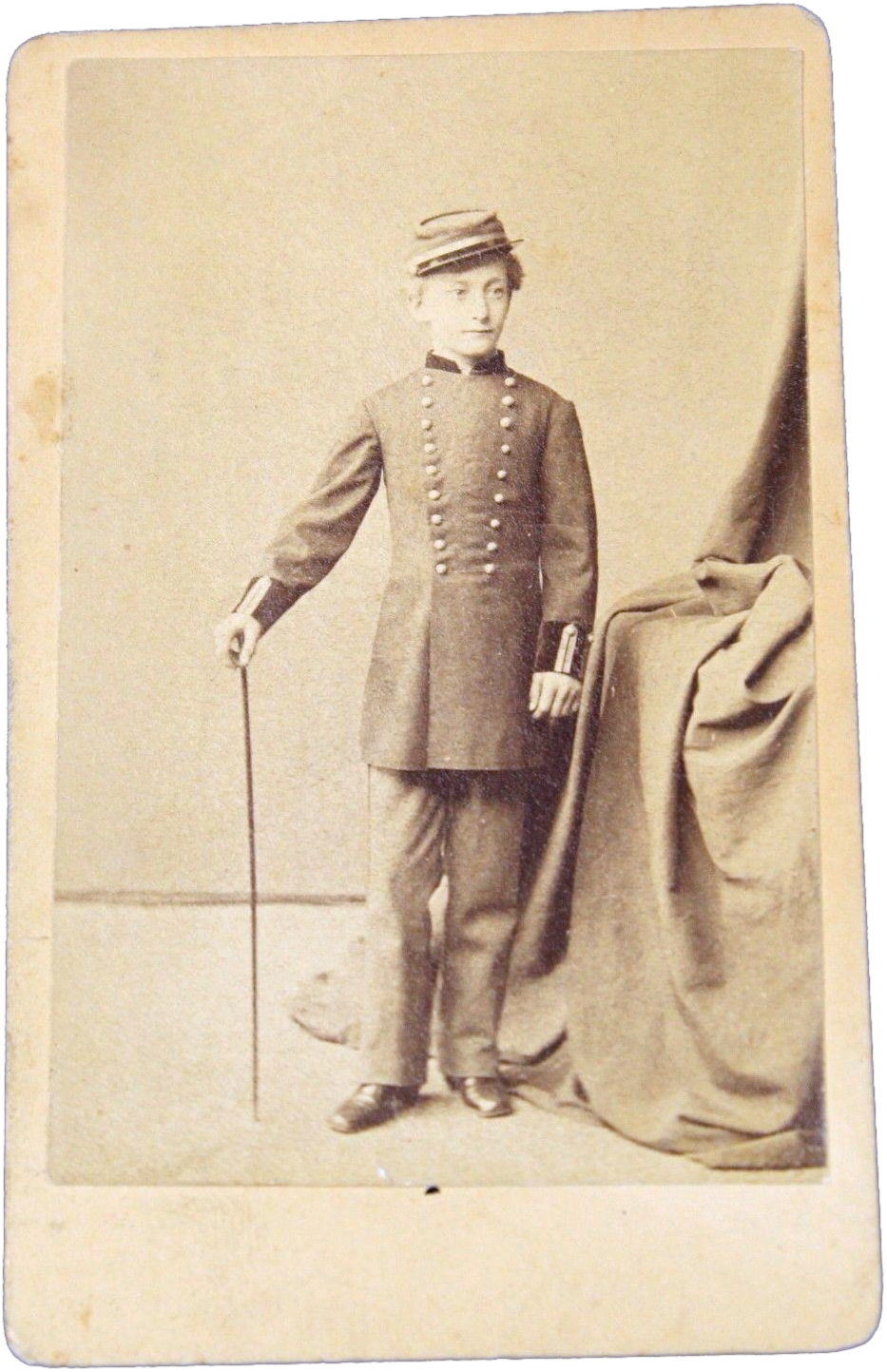 Portrait photograph of Edmund Newell